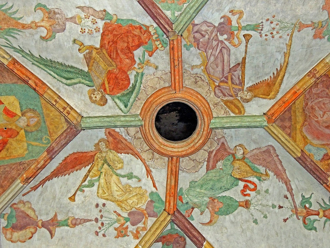 Trofaiach Parish Church St. Rupert ceiling fresken "Angels with musical instruments" 1462